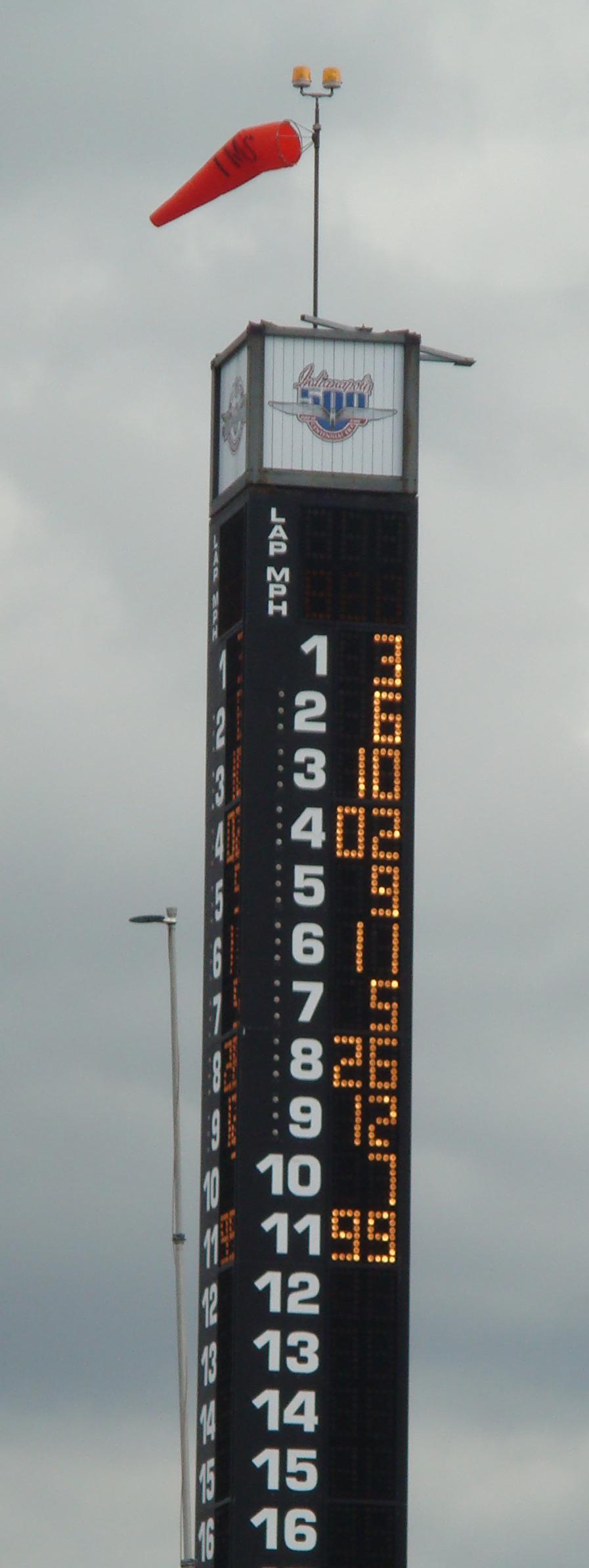 Scoring pylon following pole day qualifications for the 2009 Indianapolis 500.